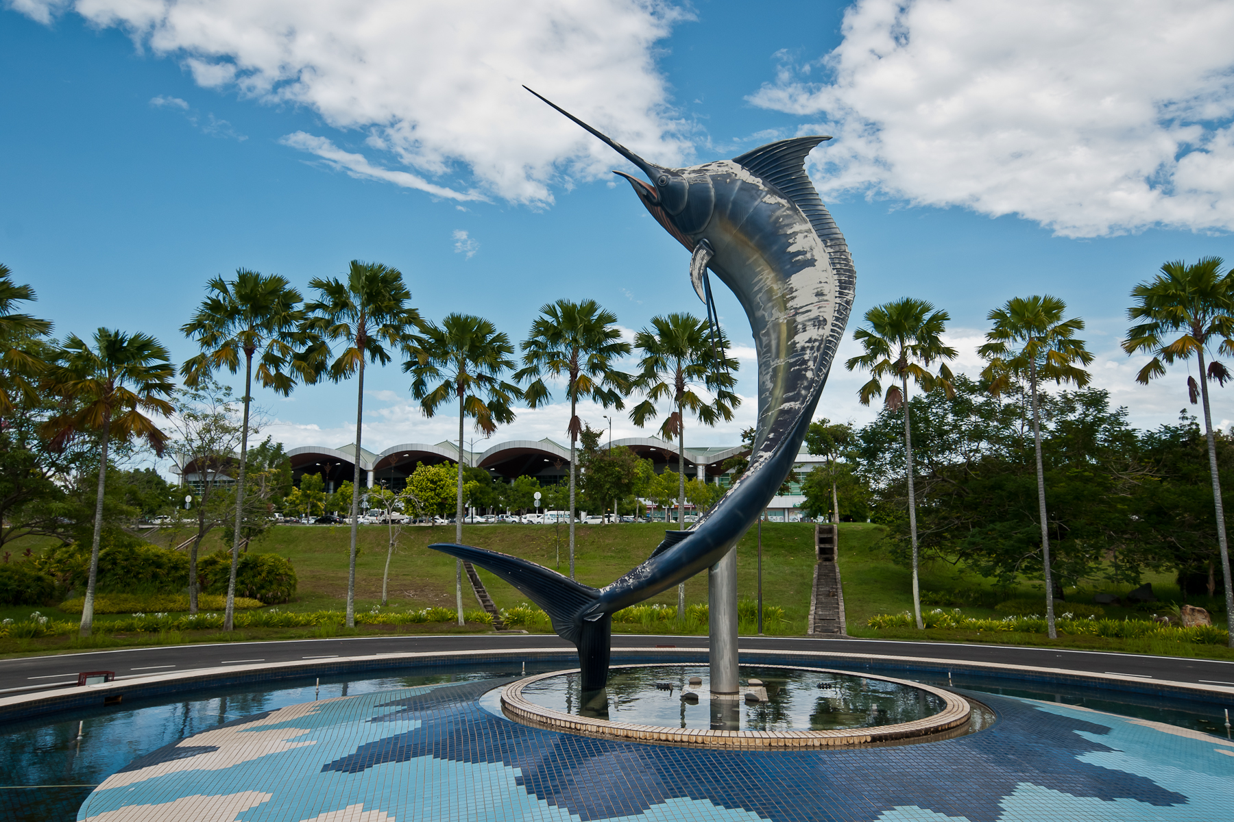 Fountain at the Airport Roundabout